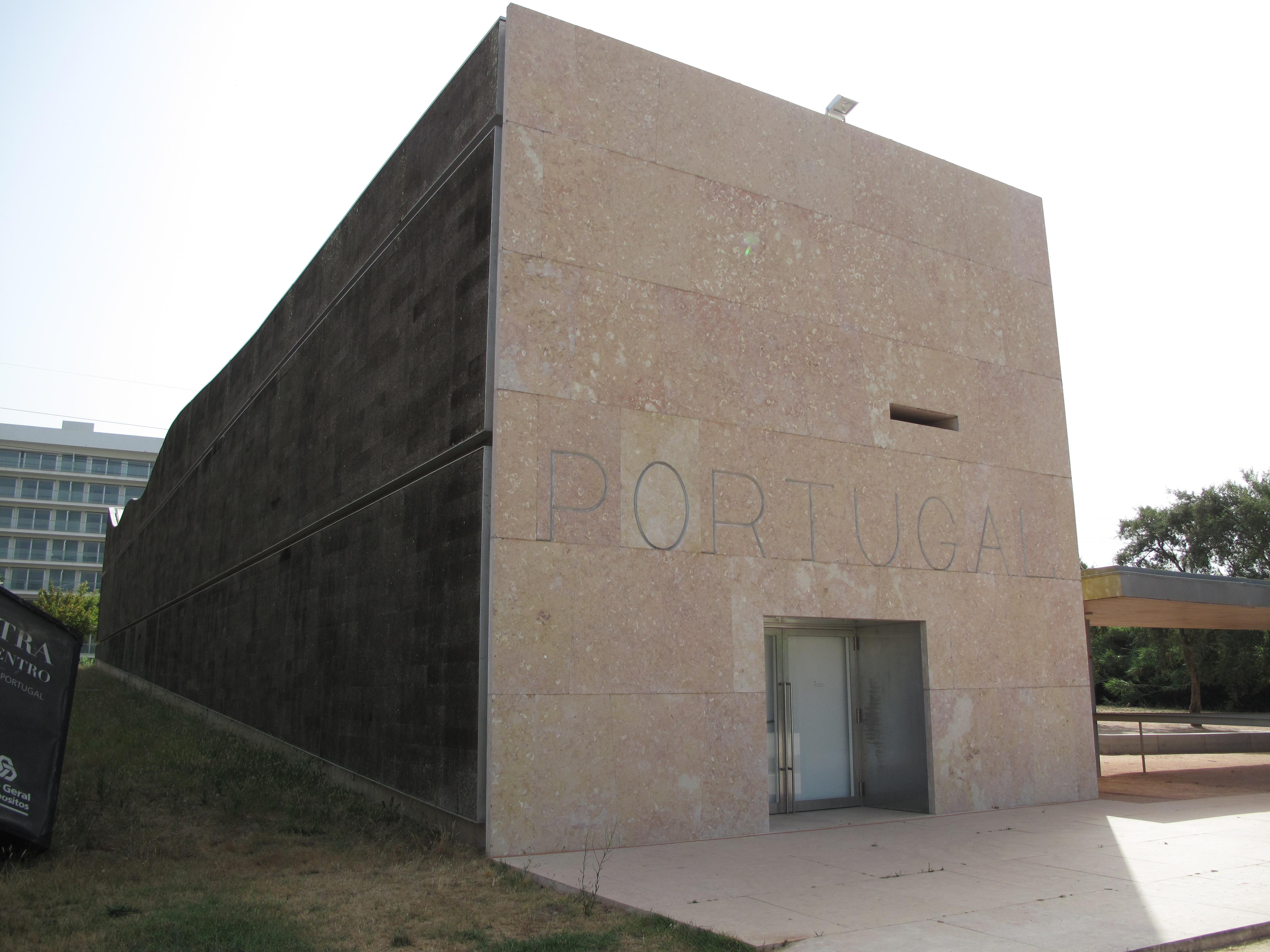 Pavilion Centre of Portugal, by Alvaro Siza and Eduardo Souto de Moura, Coimbra, Portugal.